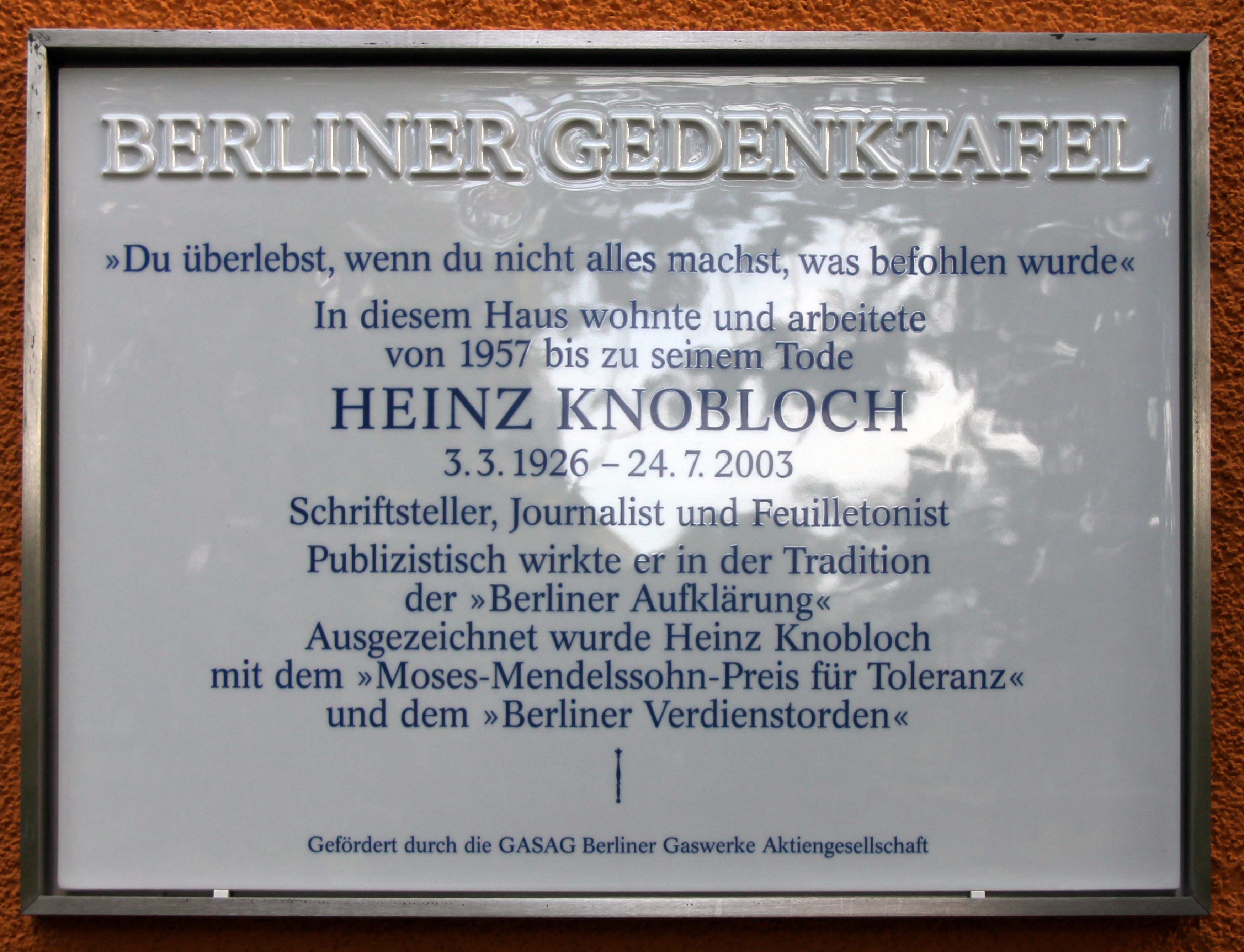 Berlin memorial plaque, Heinz Knobloch, Masurenstraße 4, Berlin-Pankow, Germany